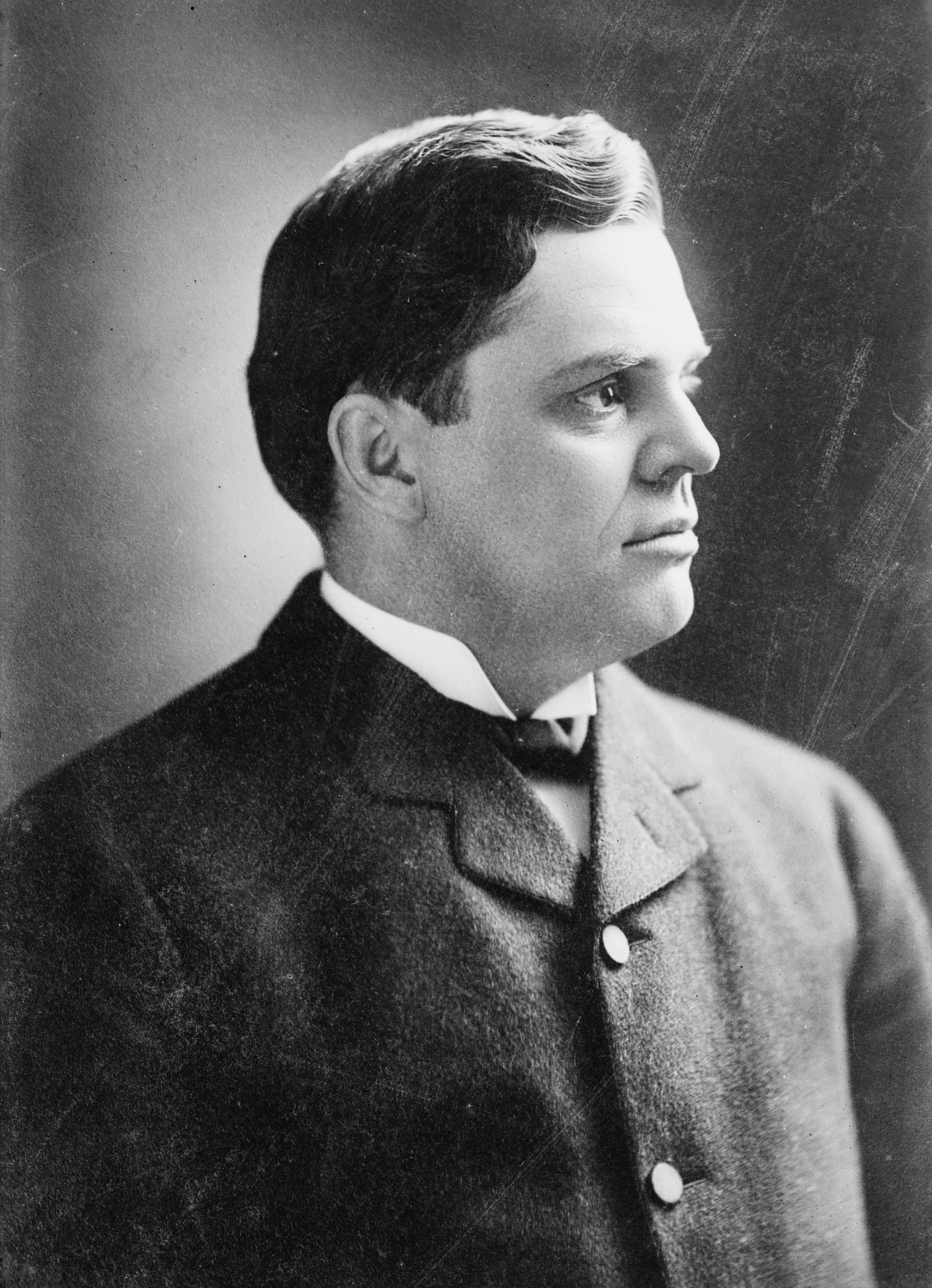 Title: C.S. Deneen Abstract/medium: 1 negative : glass ; 5 x 7 in. or smaller.